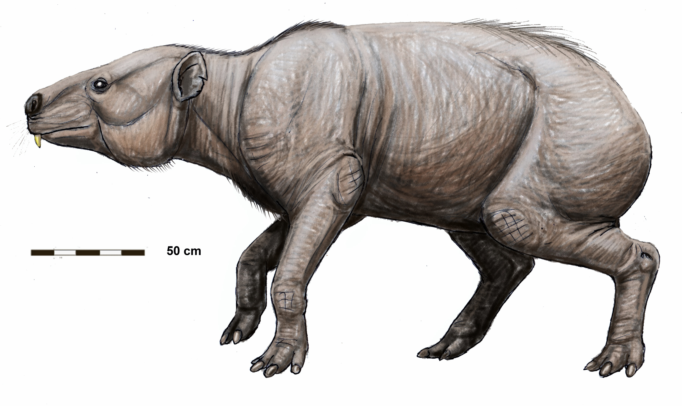 Titanohyrax, giant hyracoid from Late Eocene - Early Oligocene of North Africa